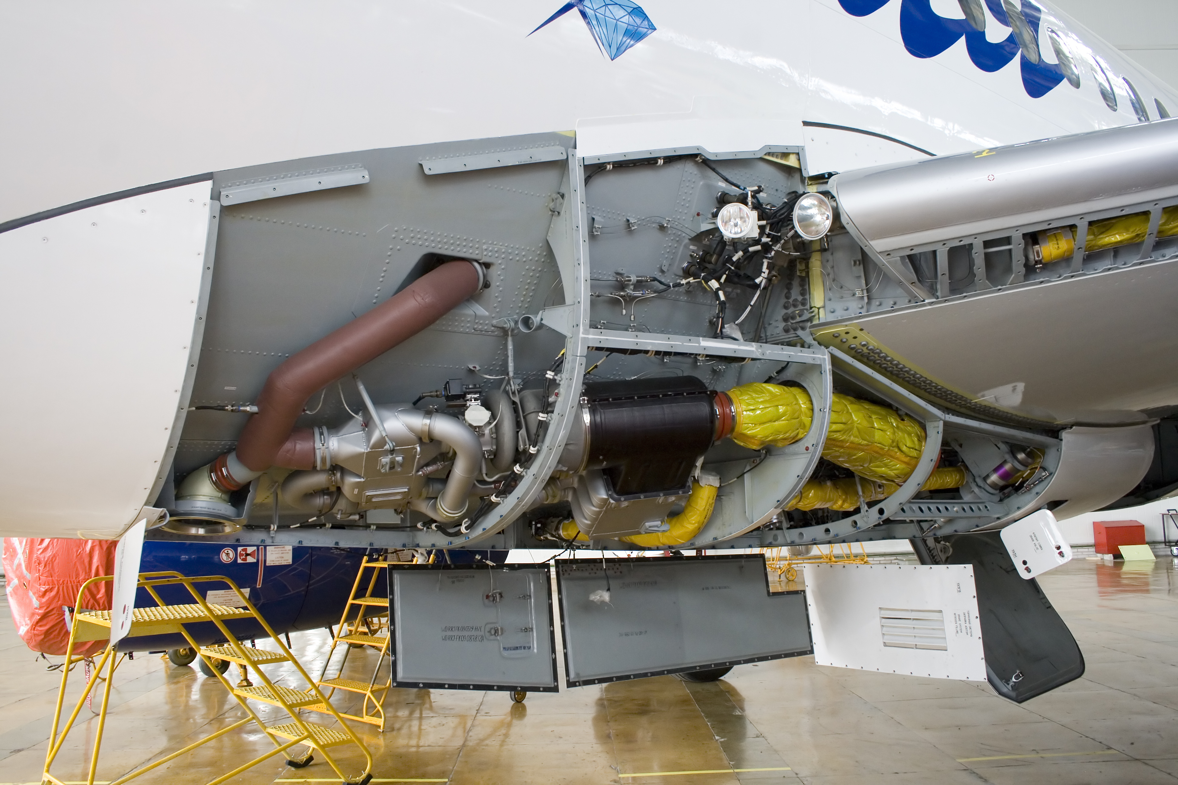 Visit to Flight Test Facility of Sukhoi Civilian Aircraft Company 23rd of May 2013